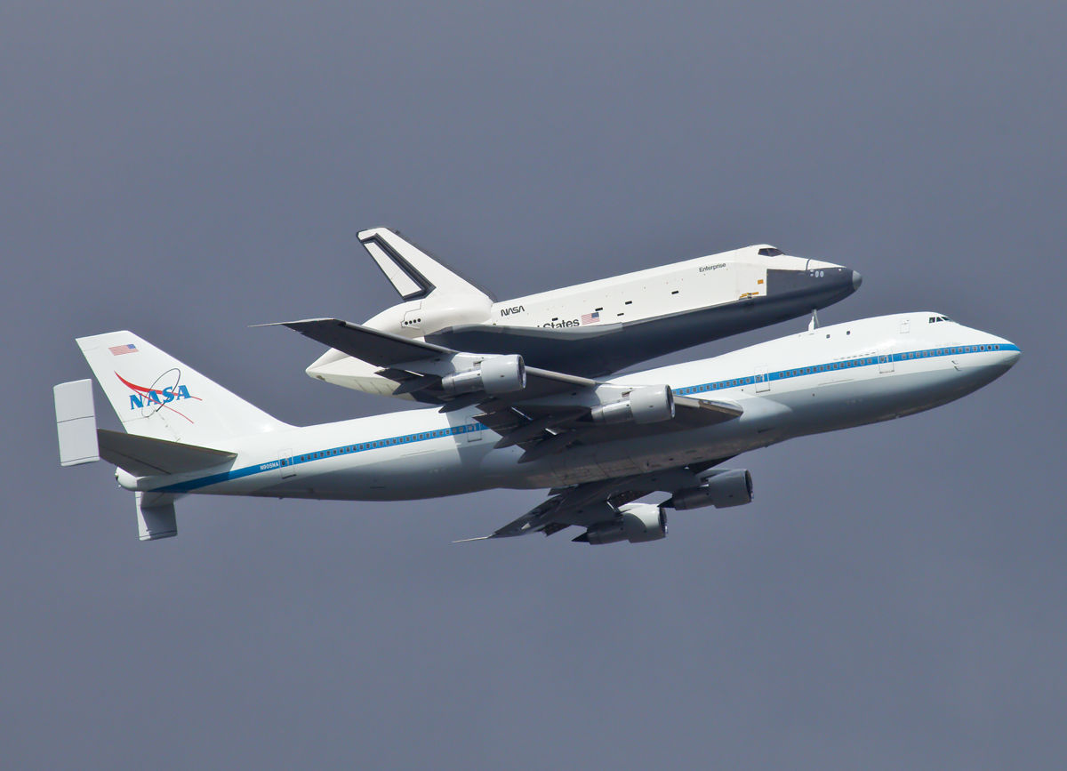 NASA Boeing 747 with Space Shuttle Enterprise on back flying over New York City